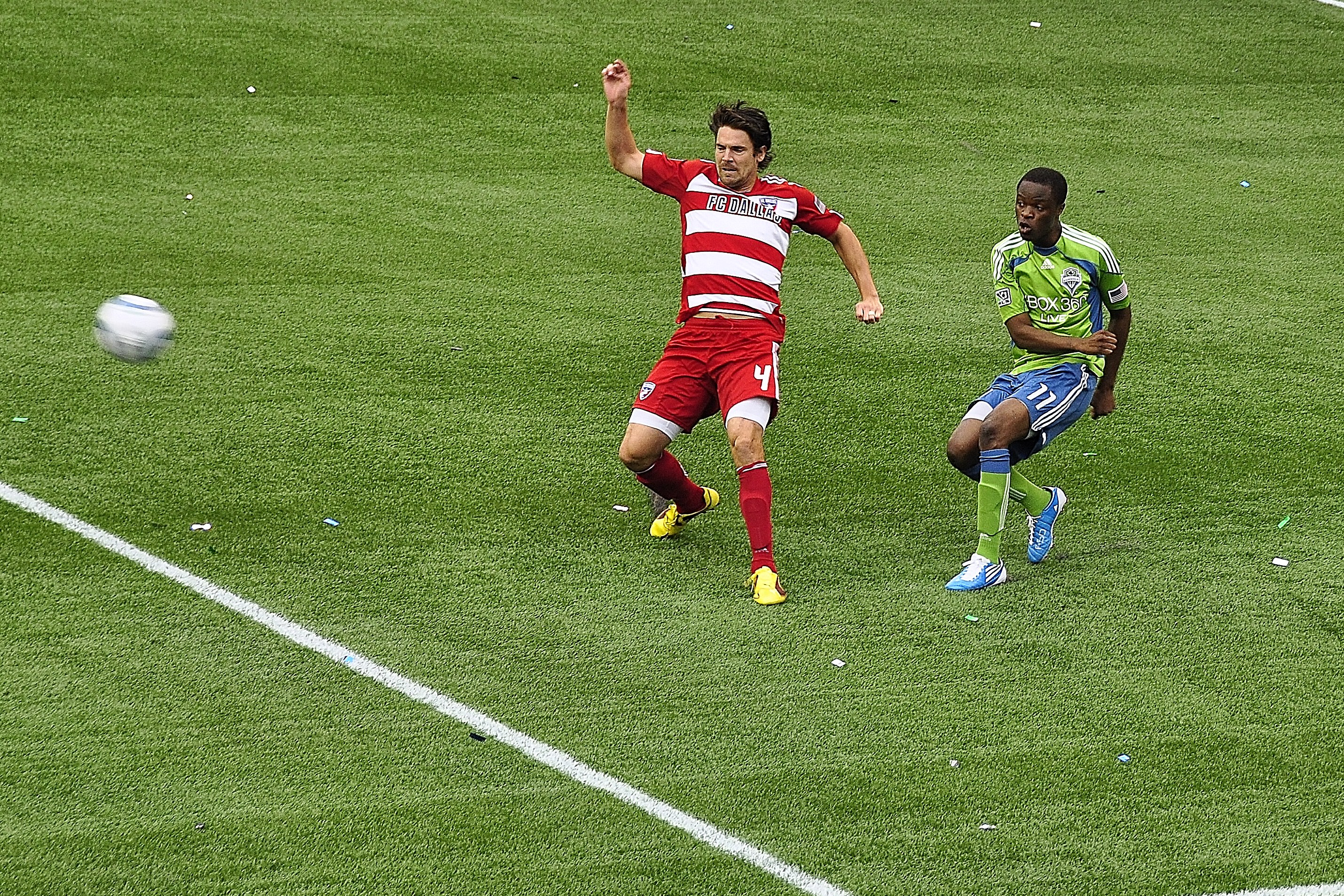 Heath Pearce of FC Dallas defending against Steve Zakuani of the Seattle Sounders..